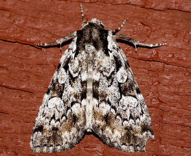 Aplectoides condita, Port Alberni, Vancouver Island, British Columbia, Canada